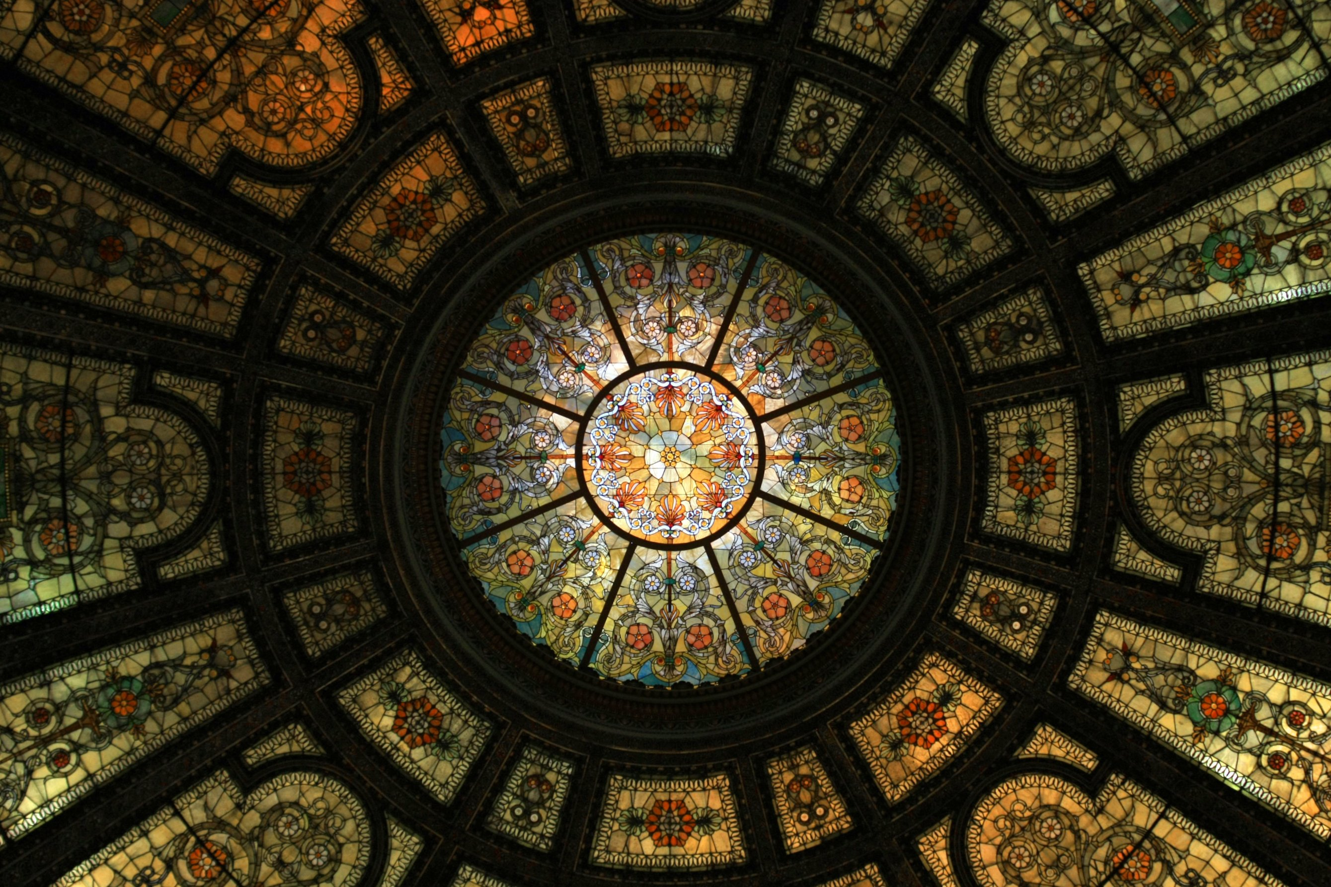 The 40-foot-diameter stained-glass dome in shades of tan, beige, and ochre is now lighted electrically. It was originally illuminated by sunlight. The stained glass was made by Healy & Millet of Chicago. It is held by cast-iron ribbing, manufactured by the Winslow Brothers of Chicago. A floor inset with glass blocks originally provided natural light from the dome to the first floor below. The immense G.A.R. Memorial Hall is just beyond the Rotunda. It measures 53-feet long, 96-feet wide, and 33-feet high. Leased to the Grand Army Hall and Memorial Association between 1898 and 1948, it was a meeting place for members of the G.A.R. Today, the collection of Civil War artifacts once displayed there is now preserved at the Harold Washington Library Center. It is used for ceremonial and artistic purposes. This entire hall had me mesmerized. I was so awestruck that I wandered around for about 15 min before I even remembered to take a few pictures. I didn't take many because I kept getting lost in the different architectural aspects.